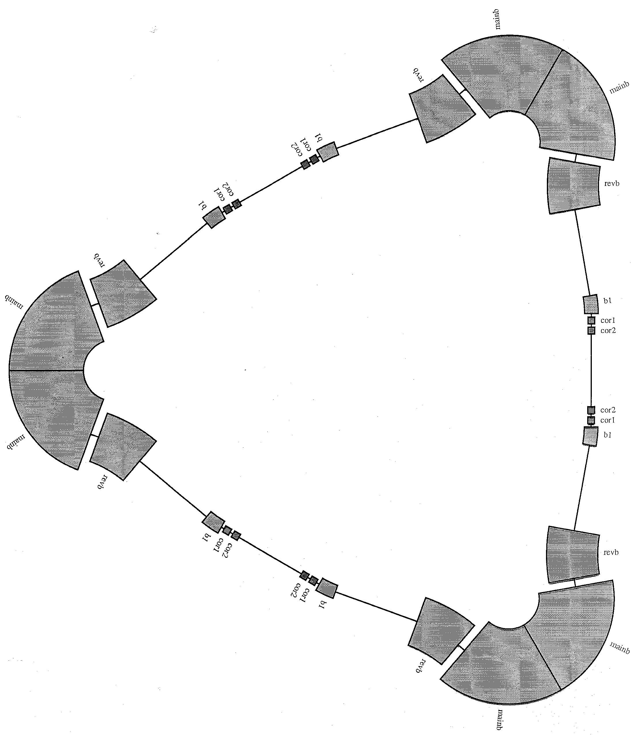 An FFAG with fixed tunes and achromatic straight sections